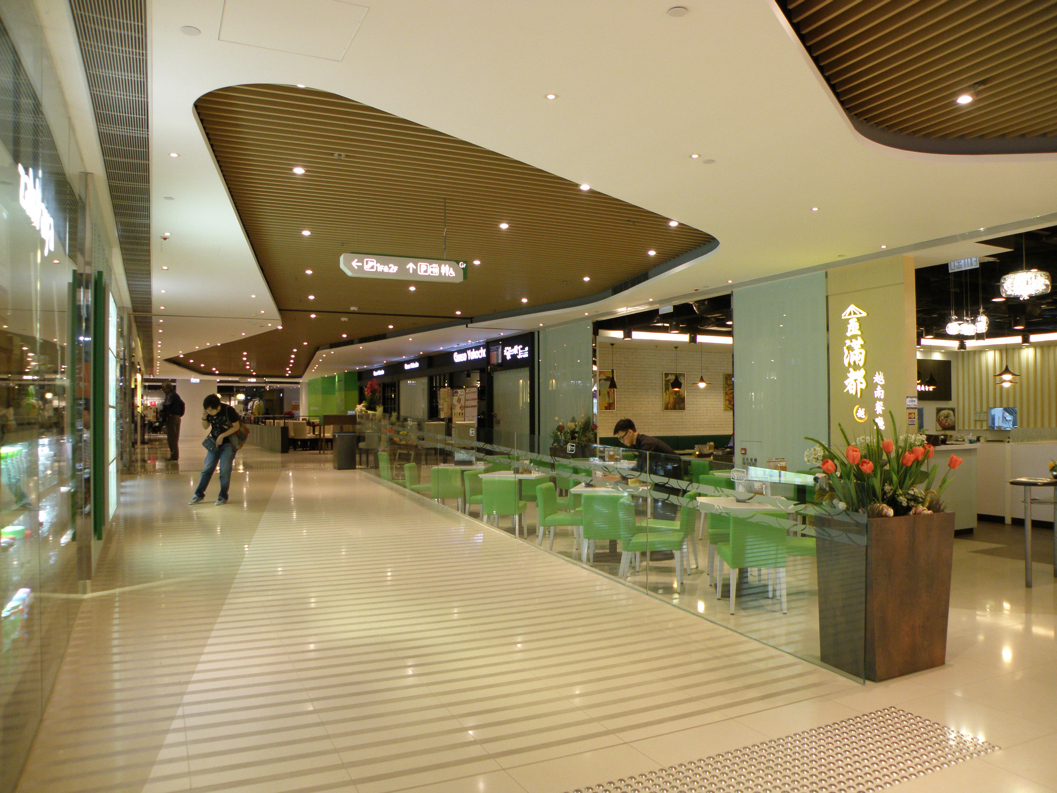 Lions Rise Mall in Wong Tai Sin, Hong Kong.